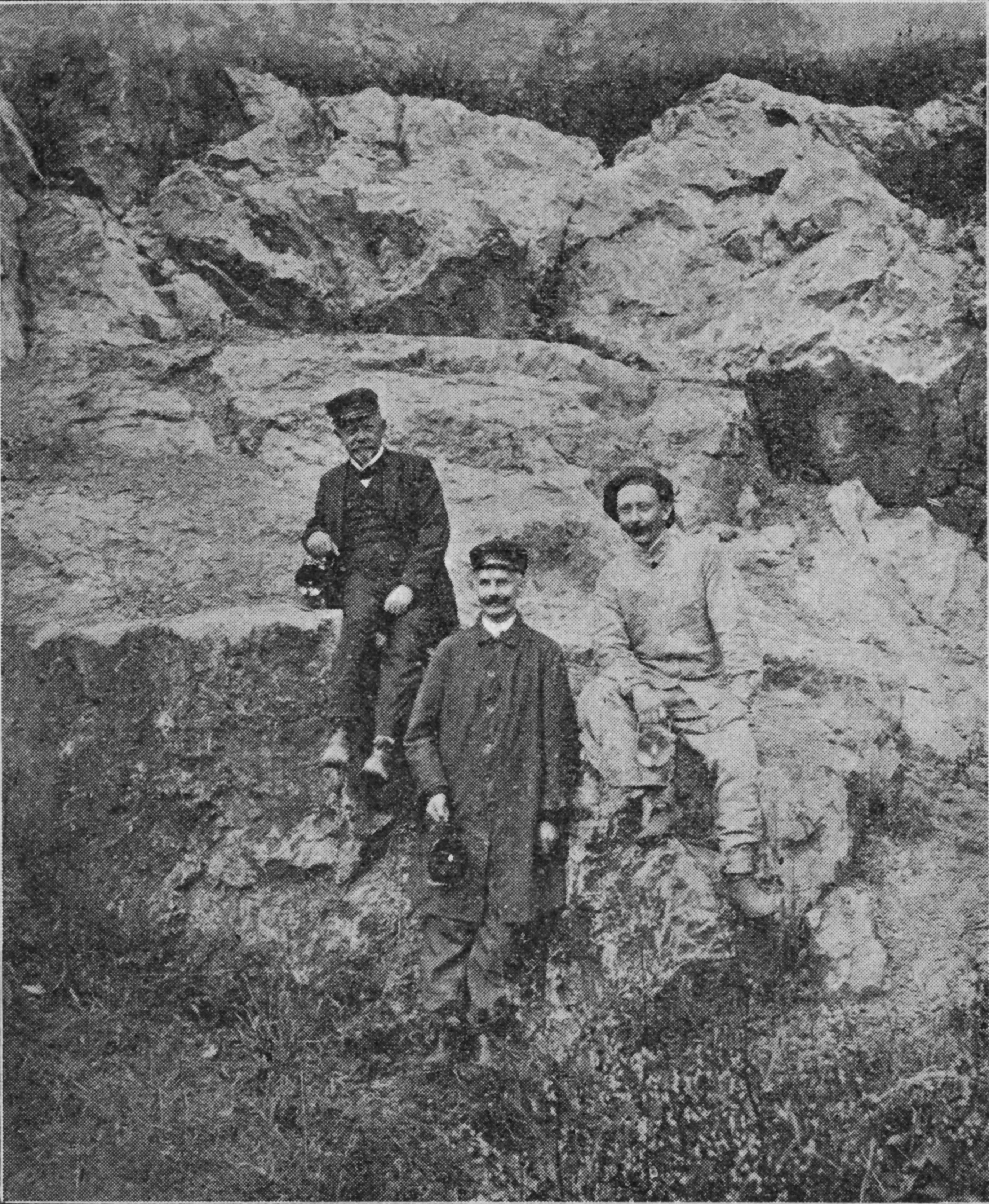 First members of the speleological section of the Litovel museum society, whose task was exploring the Mladeč caves. From the left: Otakar Douša, Stanislav Smékal, Josef Fürst.